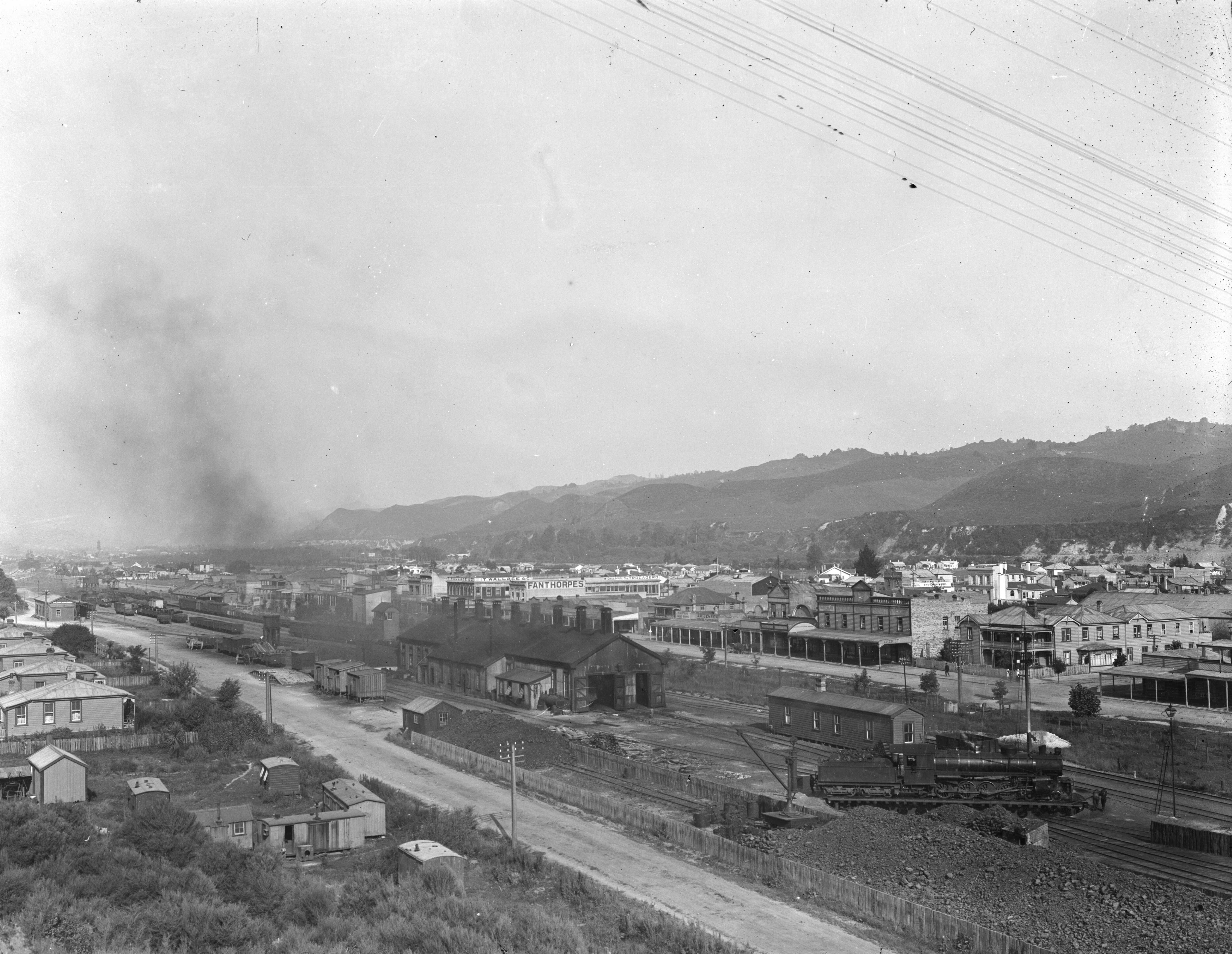 Looking over Taumarunui railway yards, the railway station, to Taumarunui township. The business premises of Fanthorpe's and T Wallace & Co. are clear in the image. Taken by Albert Percy Godber circa 1917.